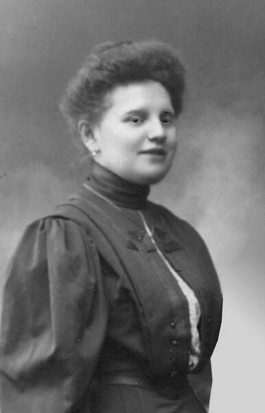 Anna Stepanovna Demidova, Lady in Waiting for Tsarina Alexandra of Russia.